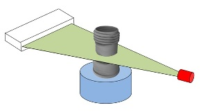 CT Scanner-Line beam system